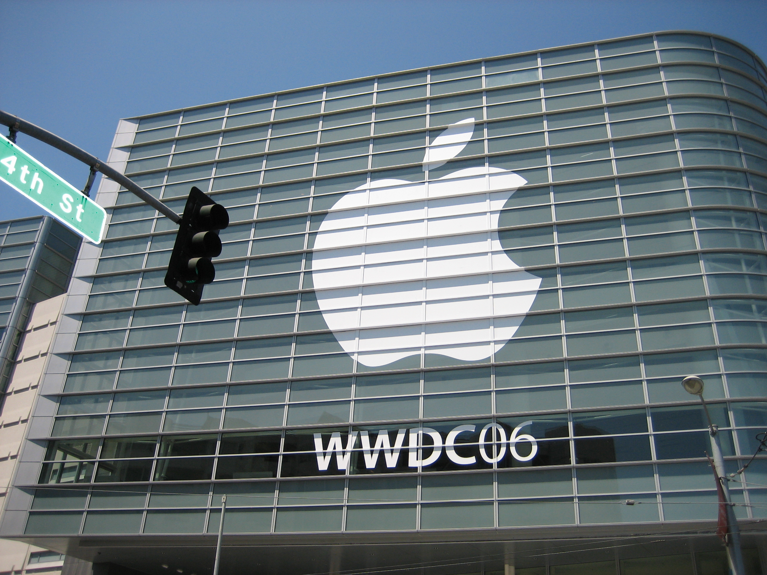 Worldwide Developers Conference 2006